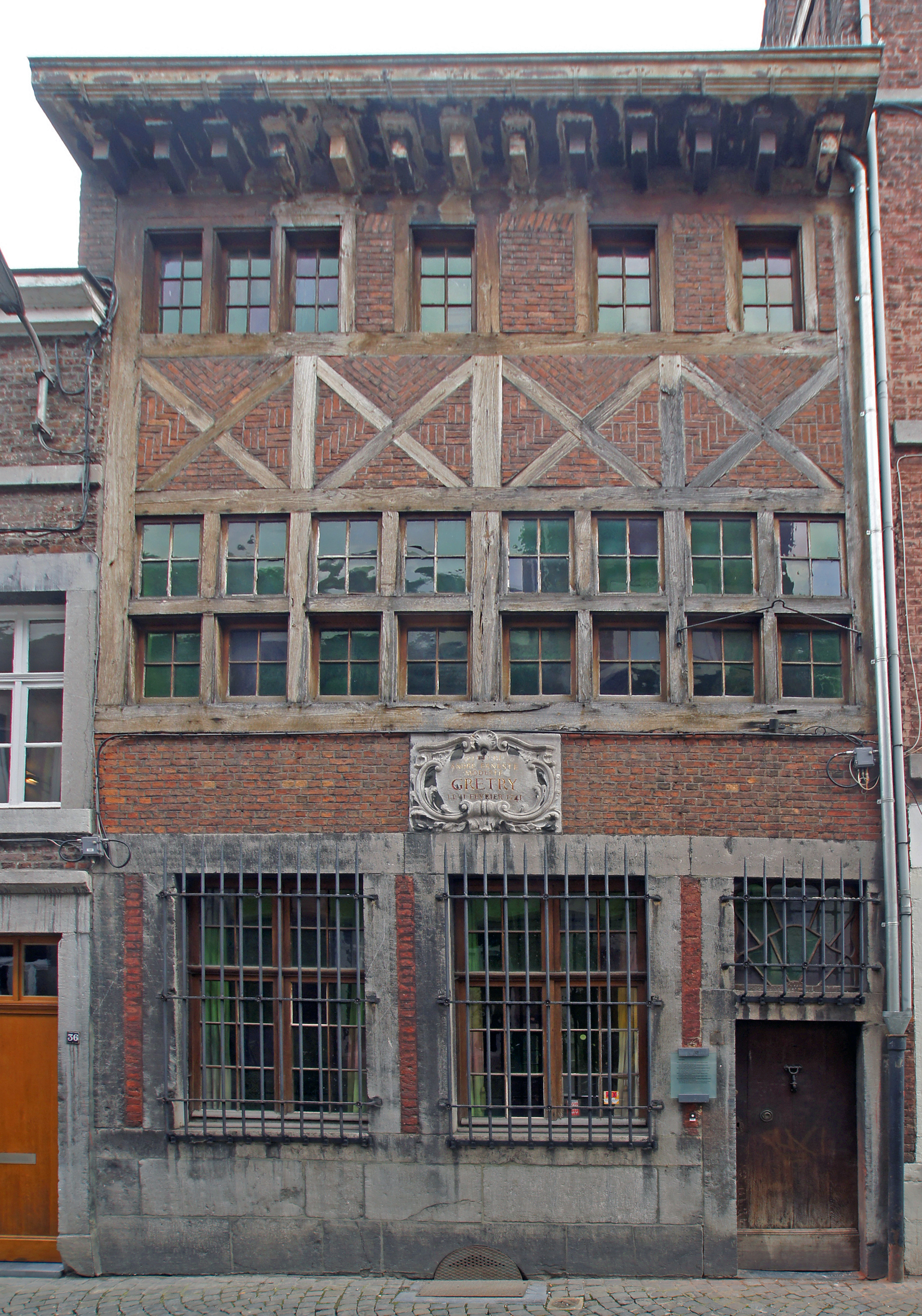 Liège, Belgium: André Grétry's Births House and Museum